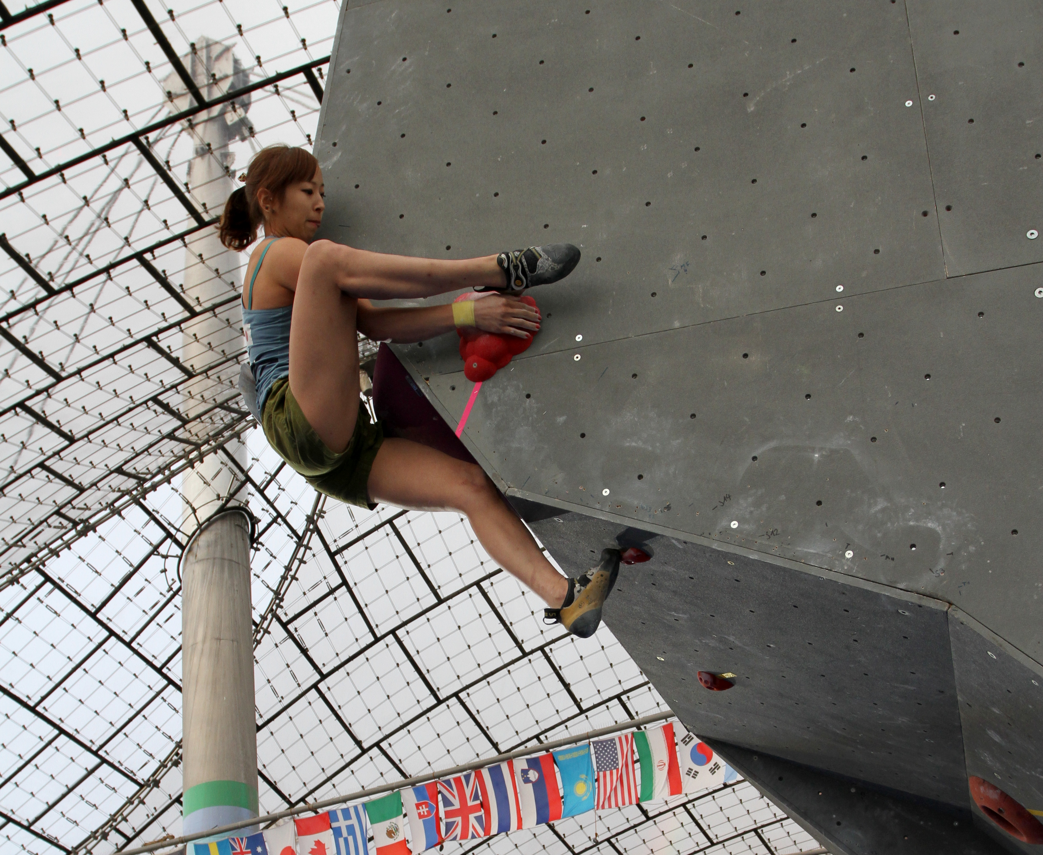 Category:Akiyo Noguchi, JPN at the Boulder Worldcup 2012, Munich.